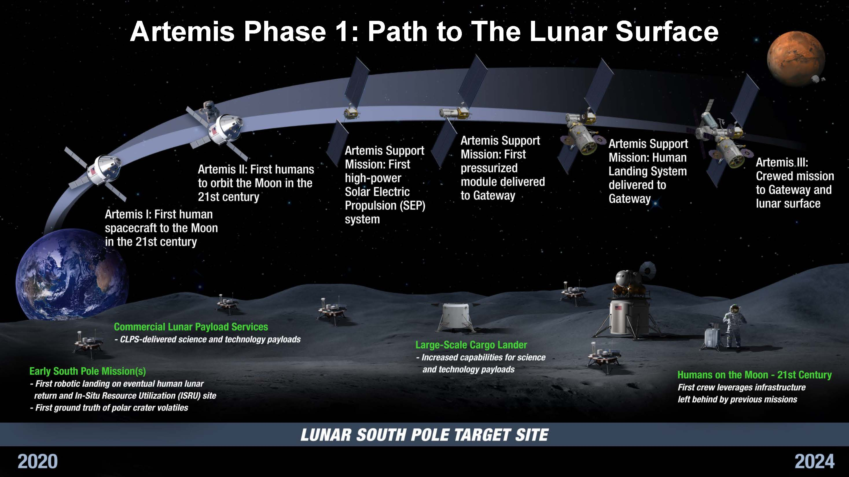 NASA Planning for Artemis program phase 1